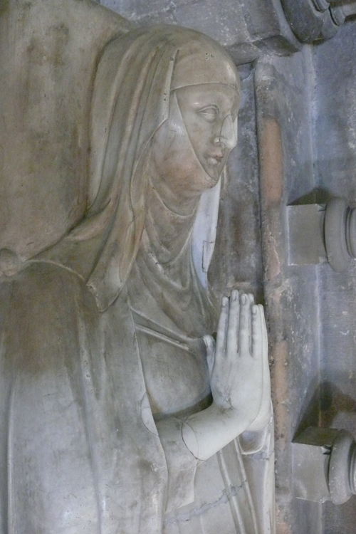 Blanche of France (1253–1323)